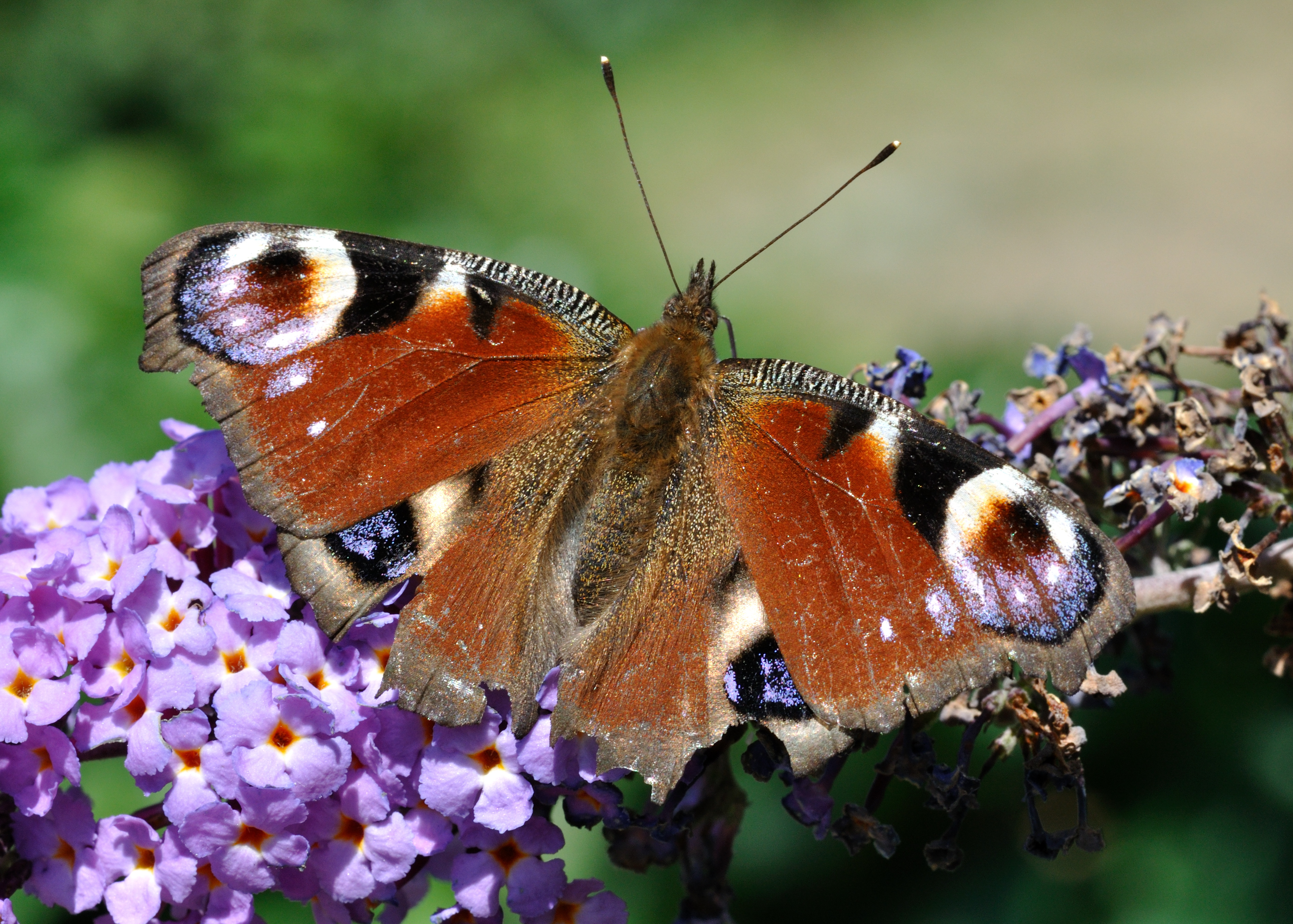 Peacock butterfly (Inachis io) at a retention basin in Ahlen, Germany.